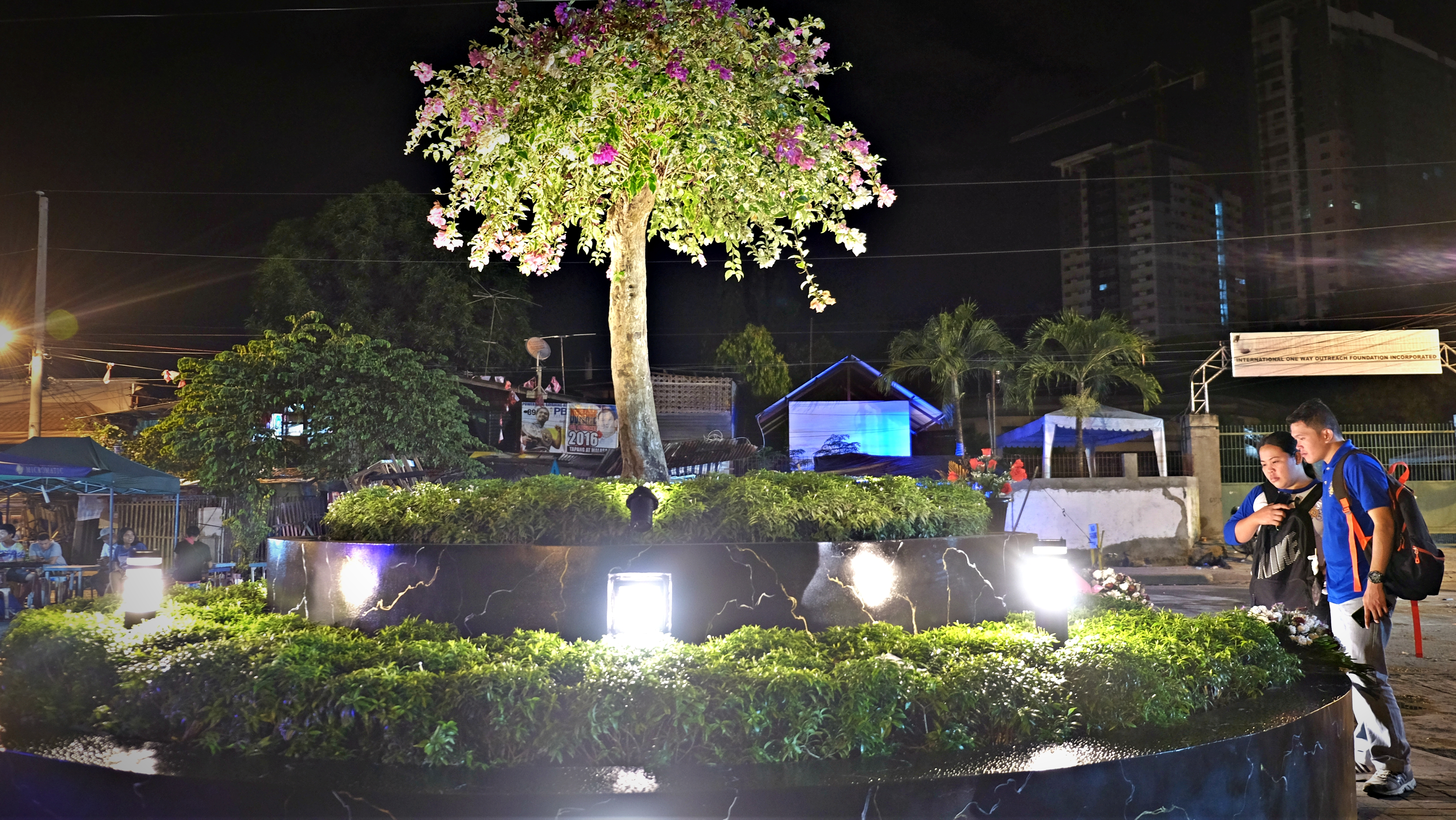 Memorial monument for the victims of the deadly blast at the Roxas Night Market